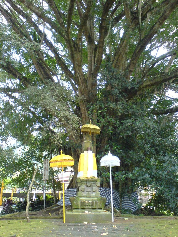 A holy banyan tree in the Hindu temple (pura) Tirta Empul in Bali, Indonesia.